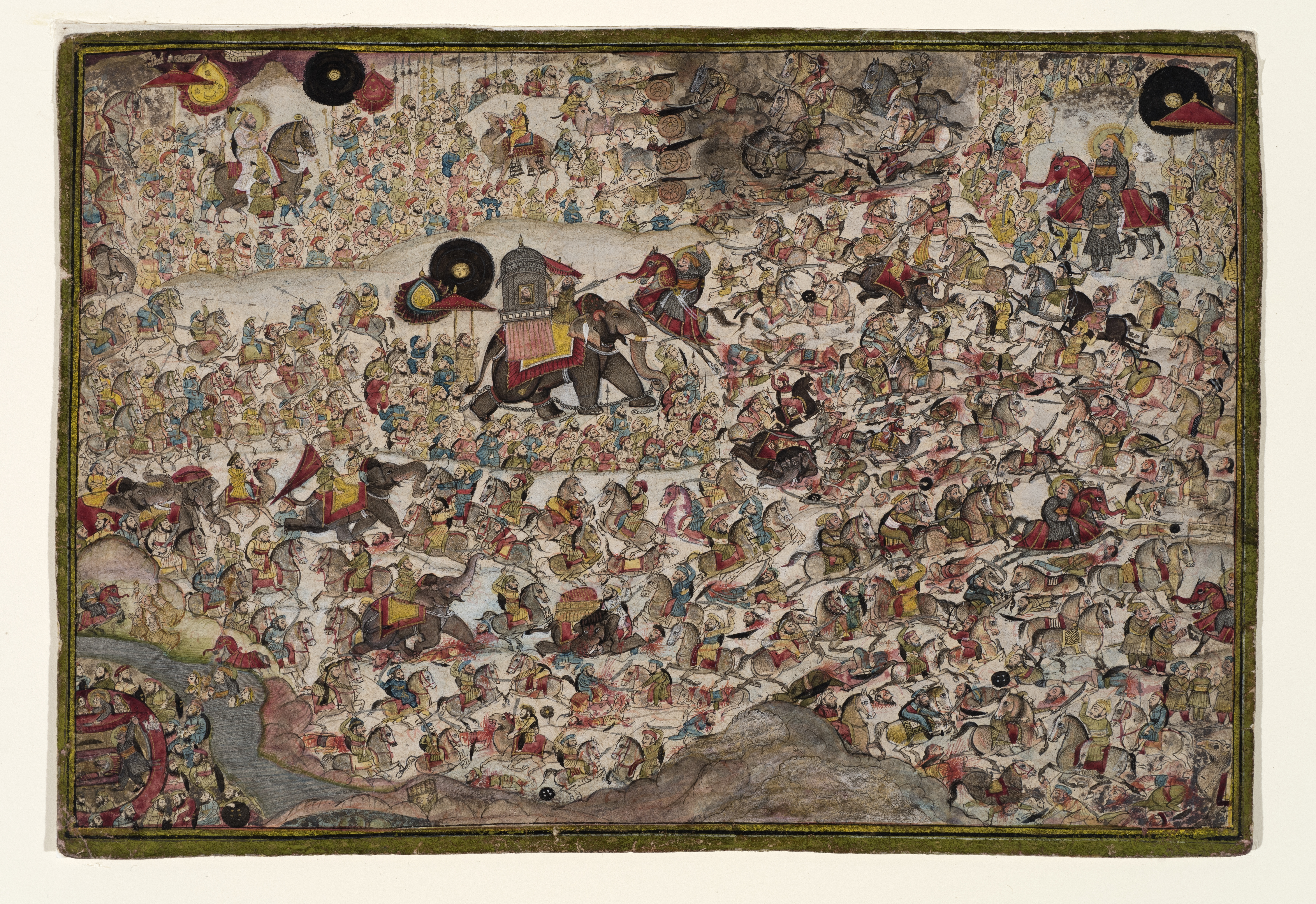 A painting probably by Chokha depicting the Battle of Haldighati (1576) between the Rana of Mewar and Raja Man Singh of Amber who was leading the forces of the Mughal Emperor, Akbar.